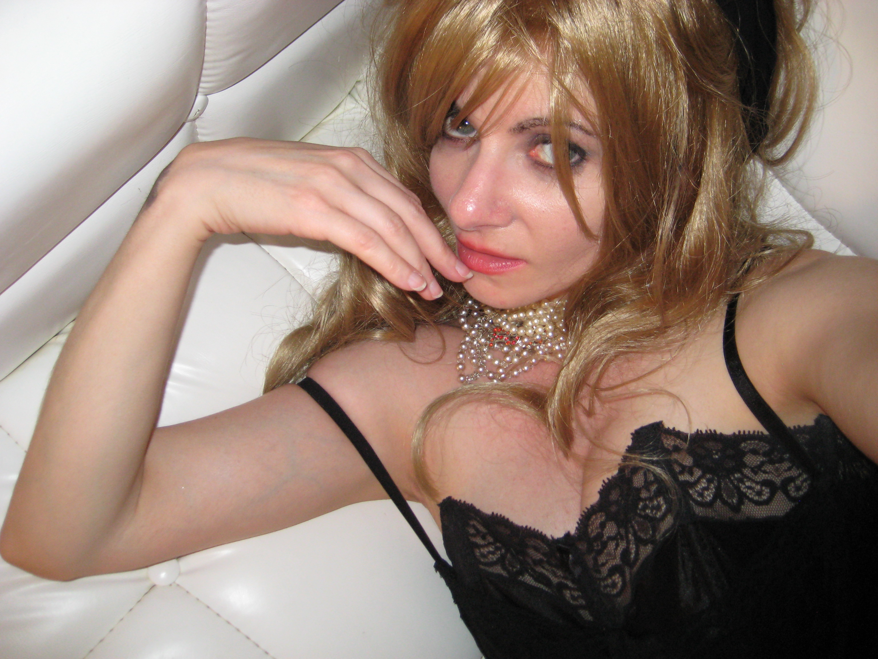 A lady with a Madonna mimic outfit in the 1980s